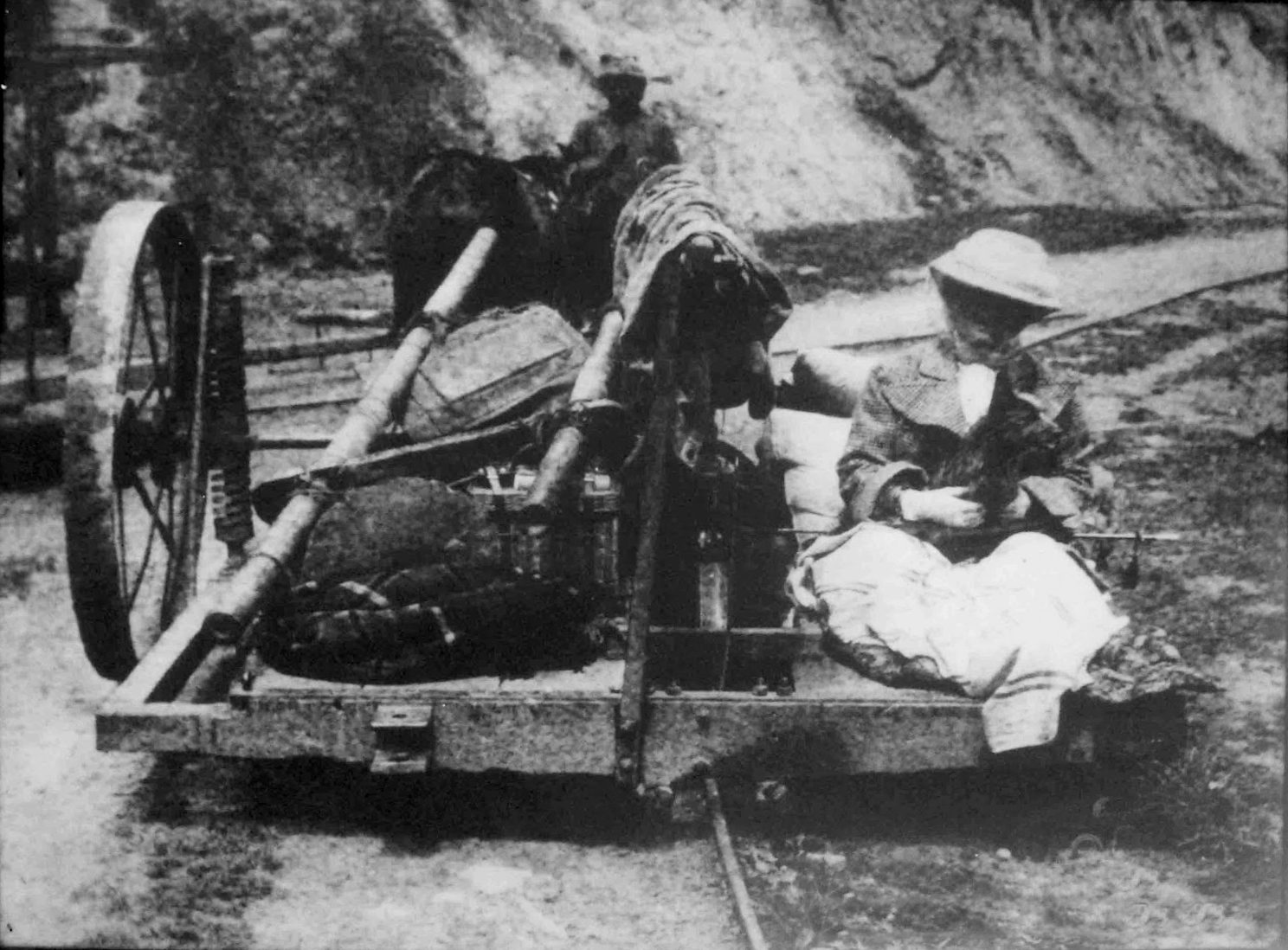 Kundala Valley Railway: Mrs. A.W. John on Monorail, c. 1900